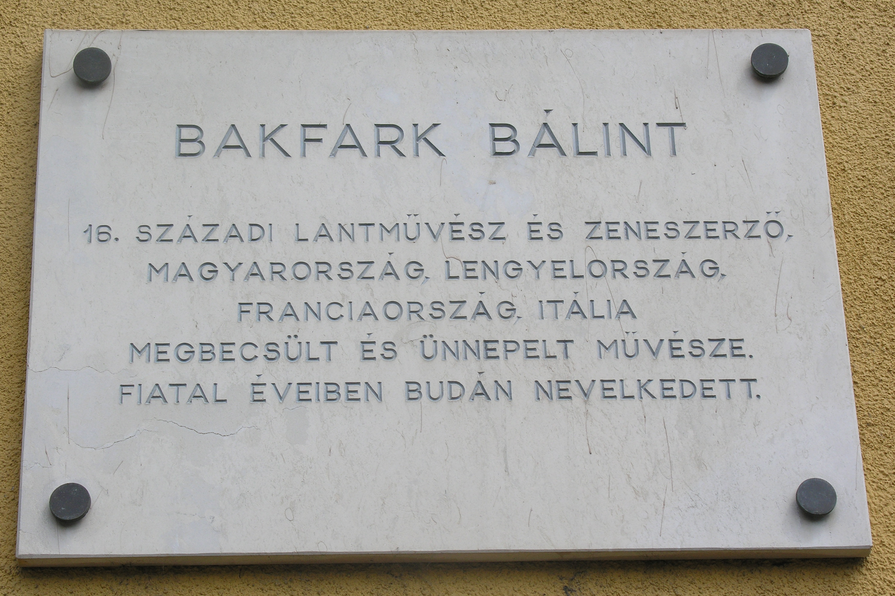 Commemorative plaque of Bálint Bakfark (Budapest District II, Bakfark Bálint Street No 3)